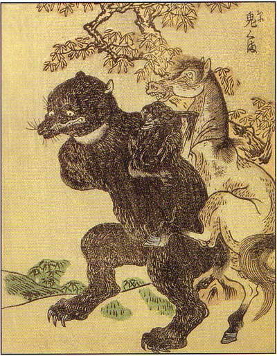 Onikuma (鬼熊) from the Ehon Hyaku Monogatari (絵本百物語)